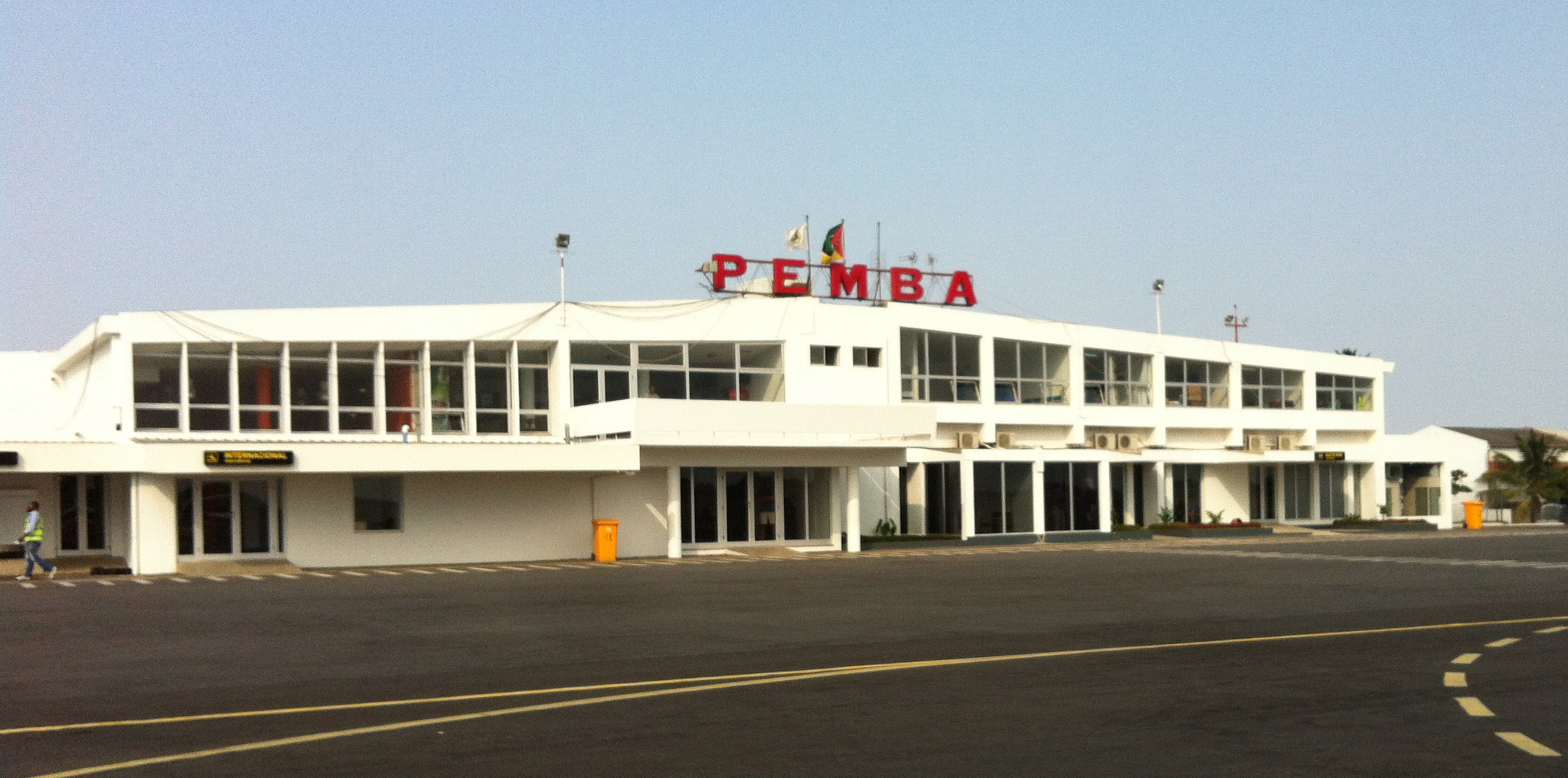 View of the Pemba, Mozambique airport terminal